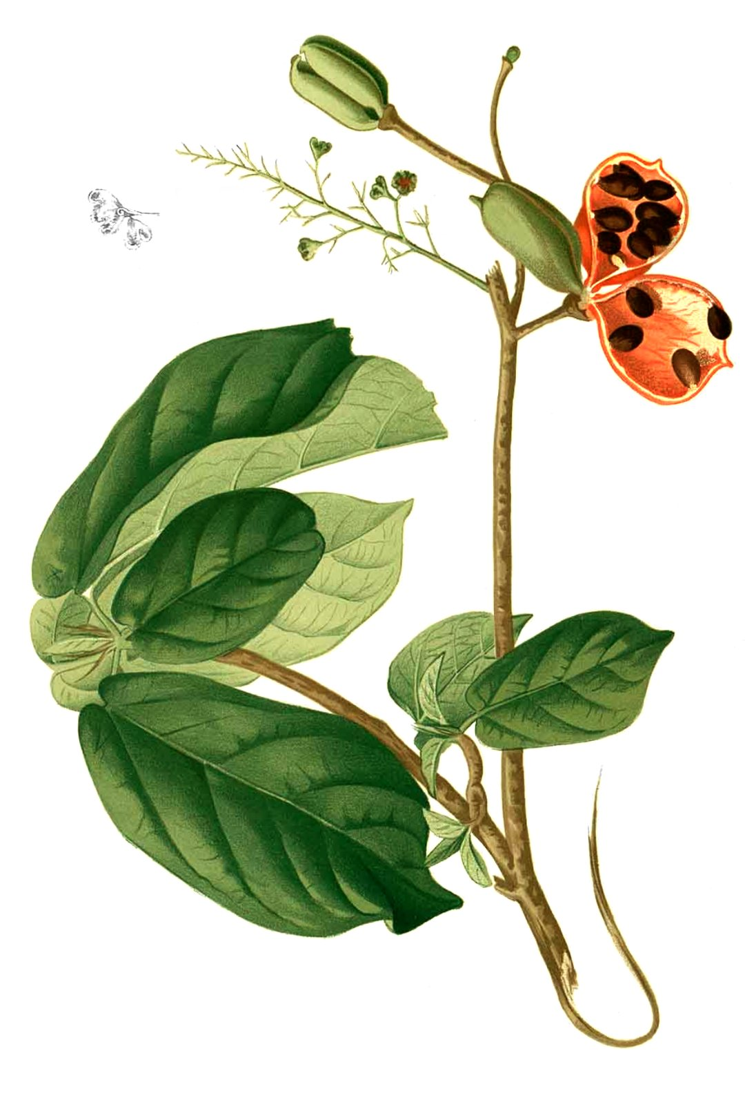 Plate from book